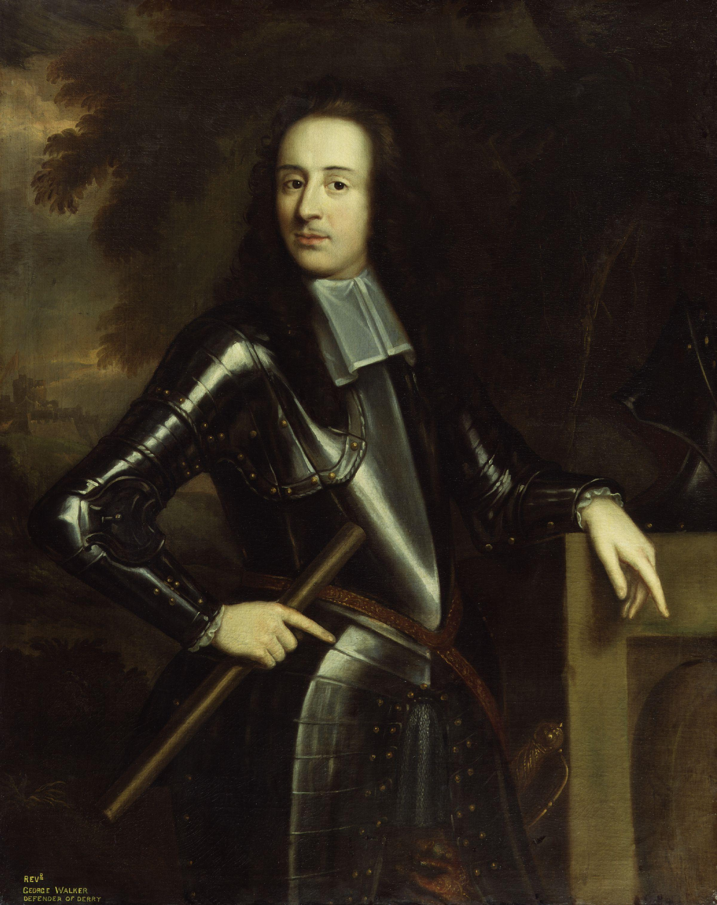 George Walker, by unknown artist, given to the National Portrait Gallery, London in 1924. All images in this batch are listed as "unknown author" by the NPG, who is diligent in researching authors, and was donated to the NPG before 1939 according to their website.